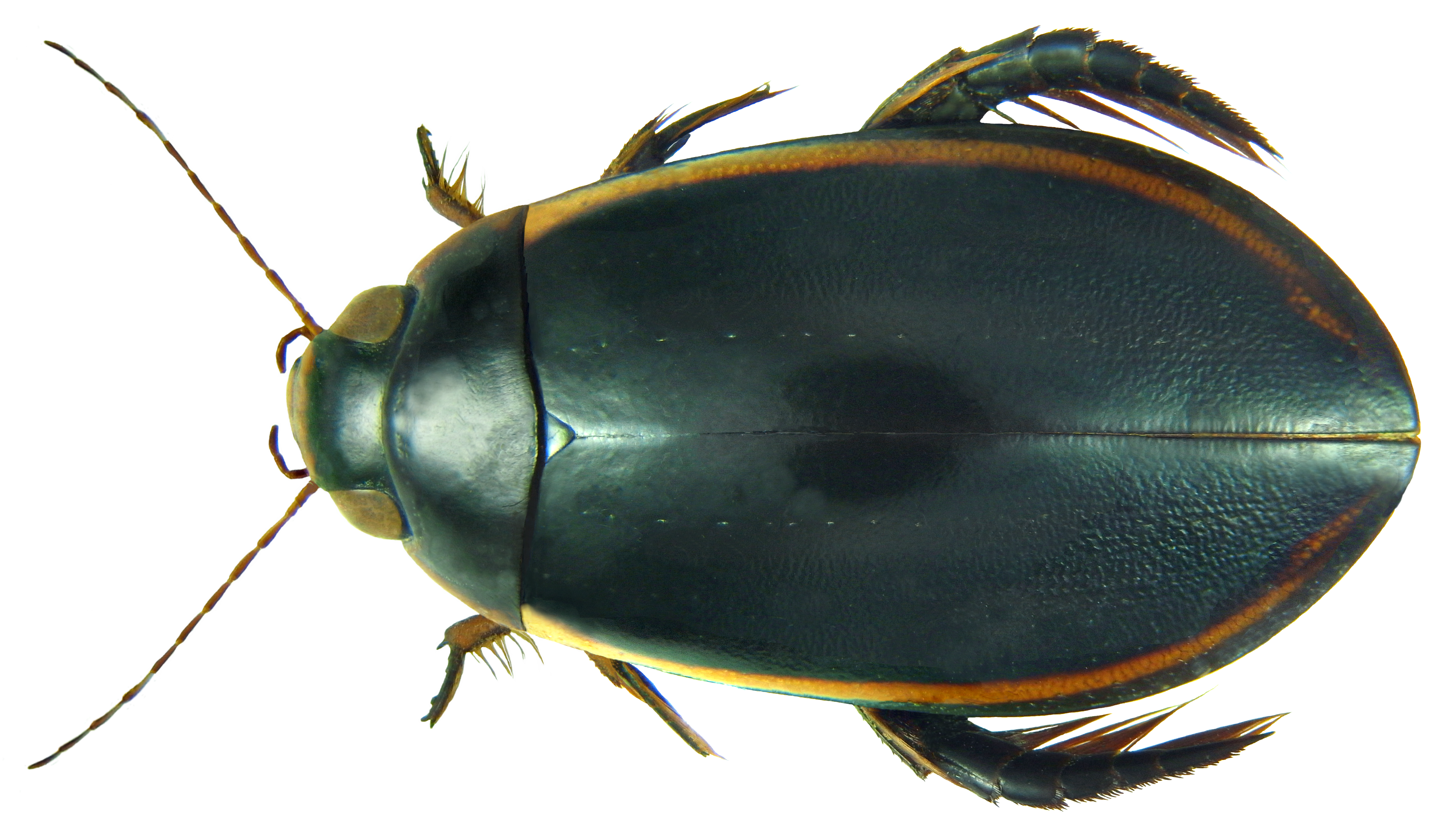 Dorsal view of Cybister rugosus Familie: Dytiscidae Groesse: 28 mm Fundort: Thailand, Chumphon leg. Steinke, VIII.1987; det. Hendrich, 2011 Photo: U.Schmidt, 2012